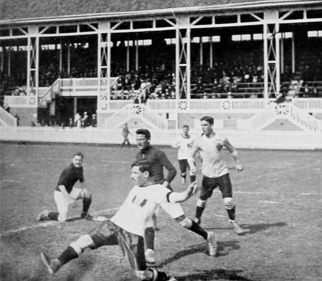 First round of the football competition at the 1912 Summer Olympics (Germany in dark jerseys).